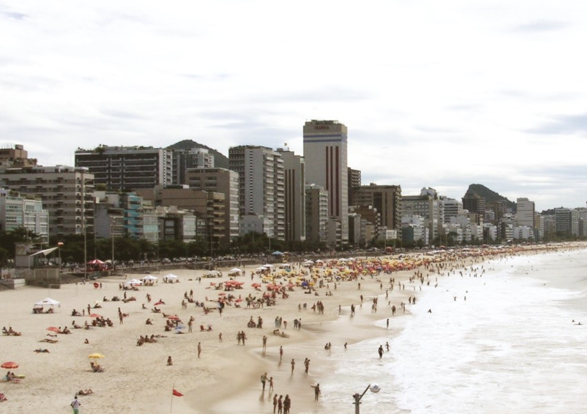 Leblon beach, Rio de Janeiro, Brazil